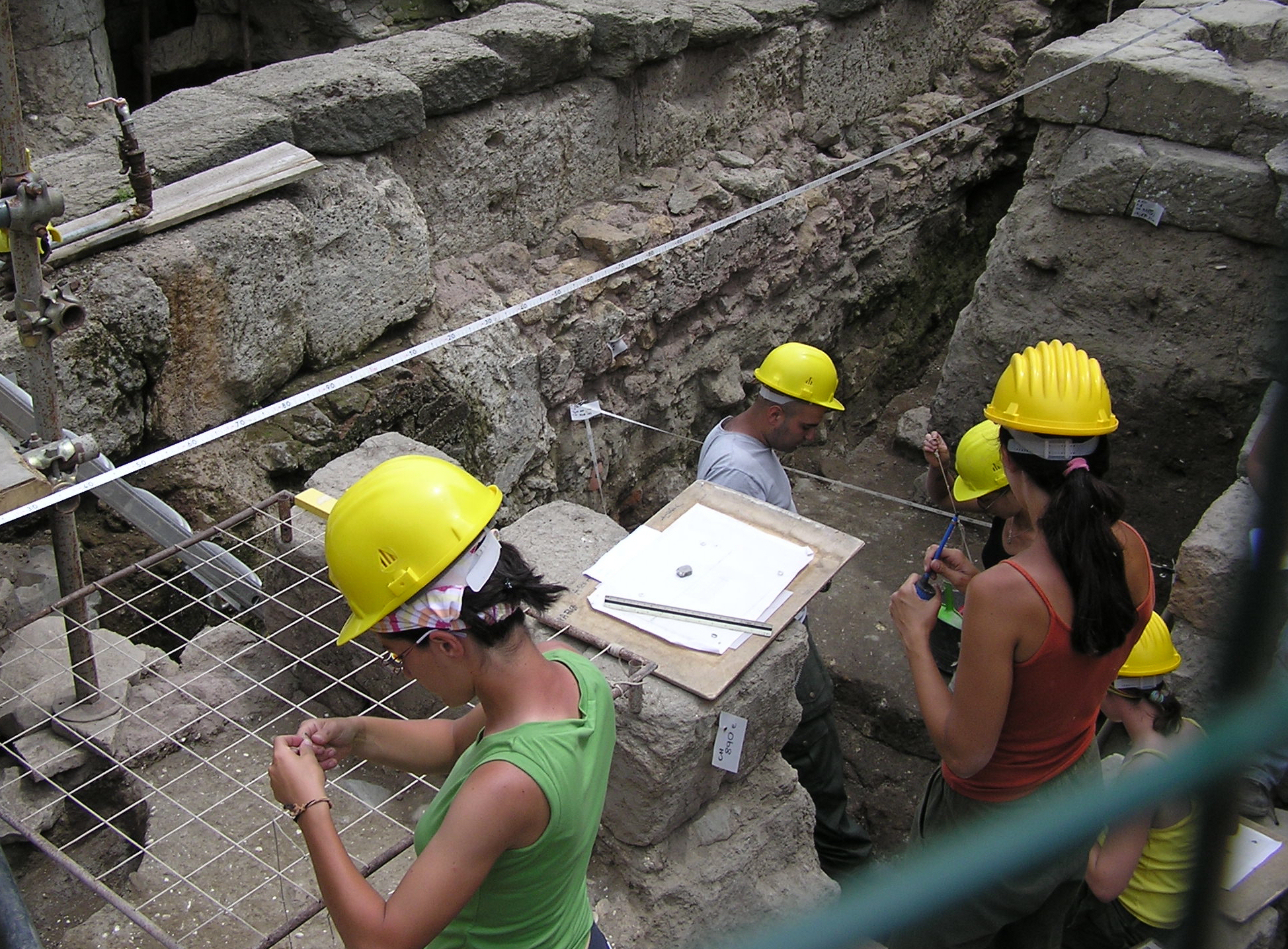 Excavations at the Roman Forum in Rome, Italy, are being mapped by these archaeologists. Photographed by myself (Adrian Pingstone) in June 2007 and placed in the public domain.